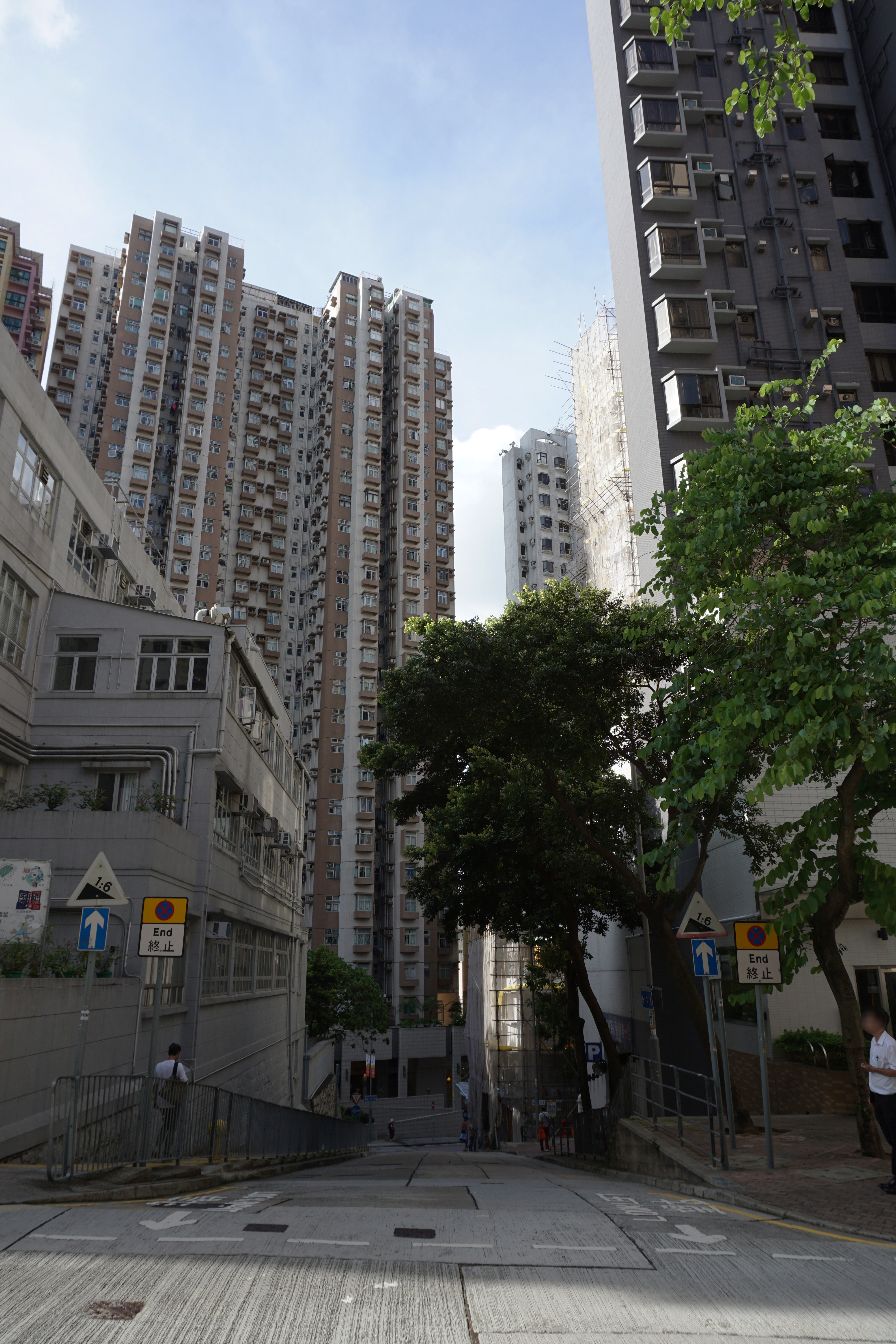 Kwong Fung Lane in Shek Tong Tsui, Hong Kong.